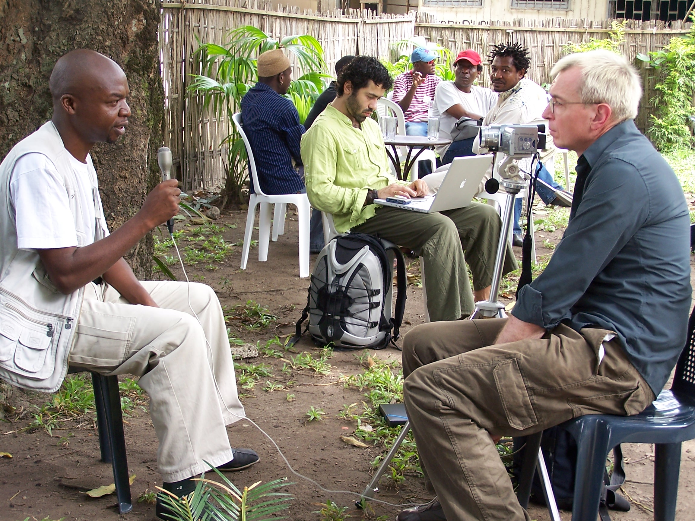 Ars&Urbis International Workshop 2007, Douala, March 2007. Goddy Leye interviewed by Christian Hanussek. Photo by Paulin Tchuenbou for doual'art.